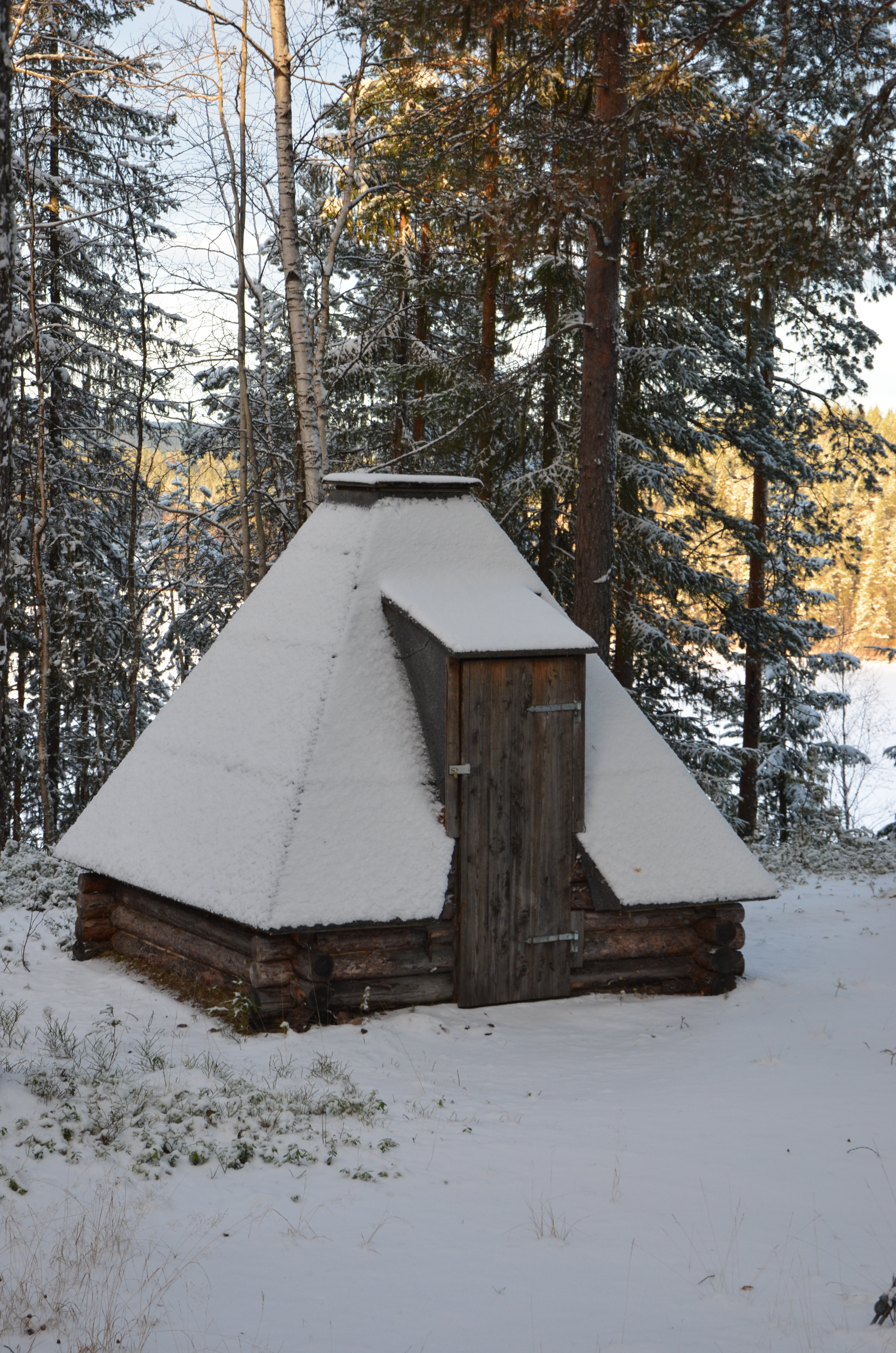 Kåta på Vuollerim 6000 Natur och Kulturs område, Vuollerim